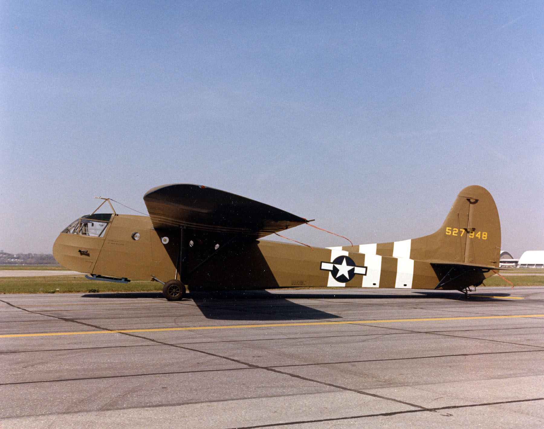 A U.S. Army Air Force Waco CG-4A-GN glider (s/n 45-27948) at the National Museum of the United States Air Force, at DAyton, Ohio (USA).